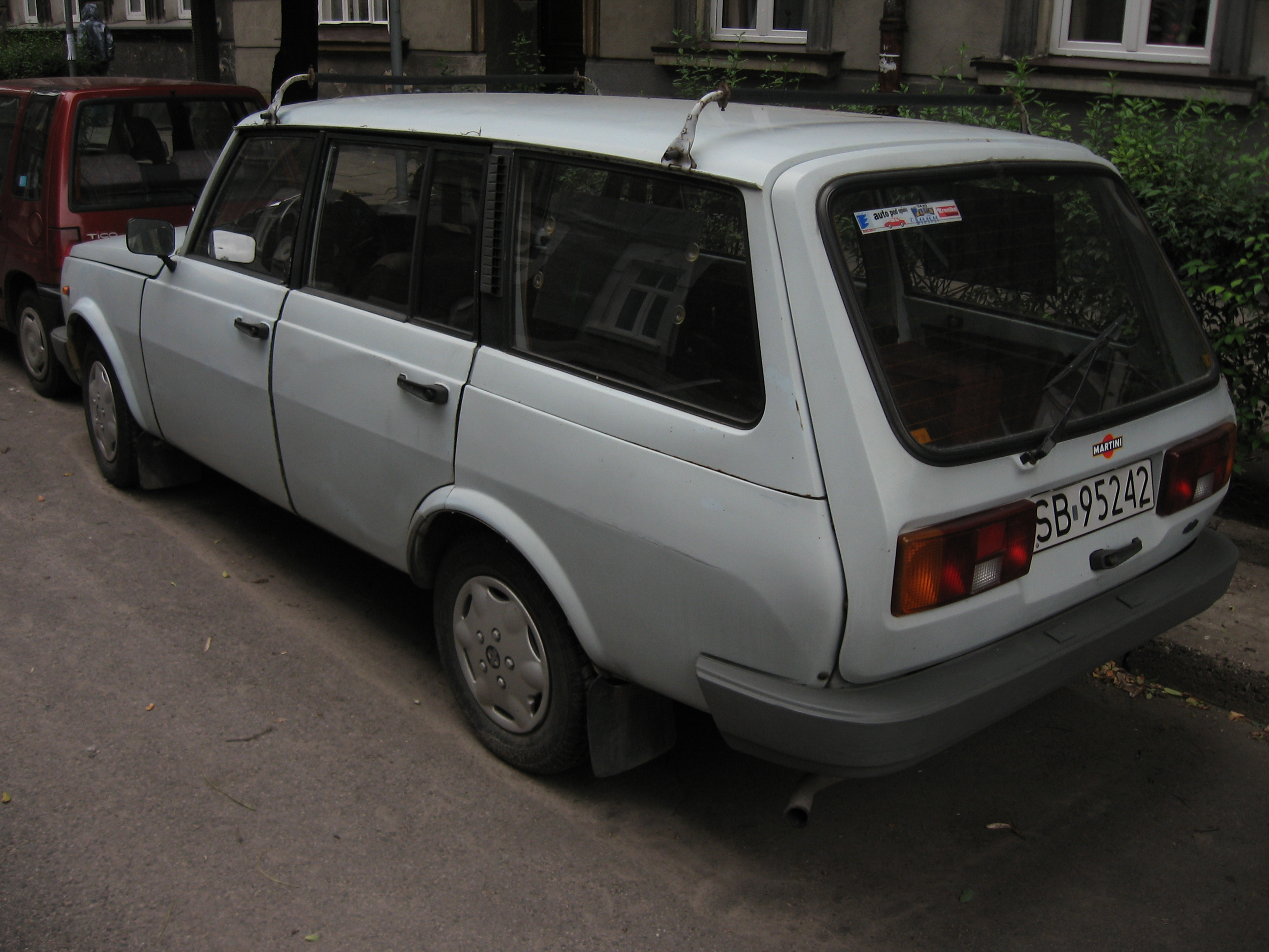 Wartburg 1.3 Tourist car in Kraków, Poland.